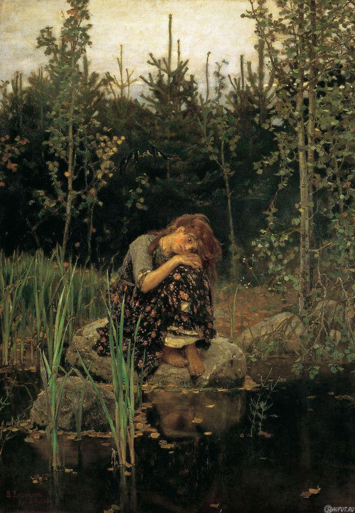 Alyonushka